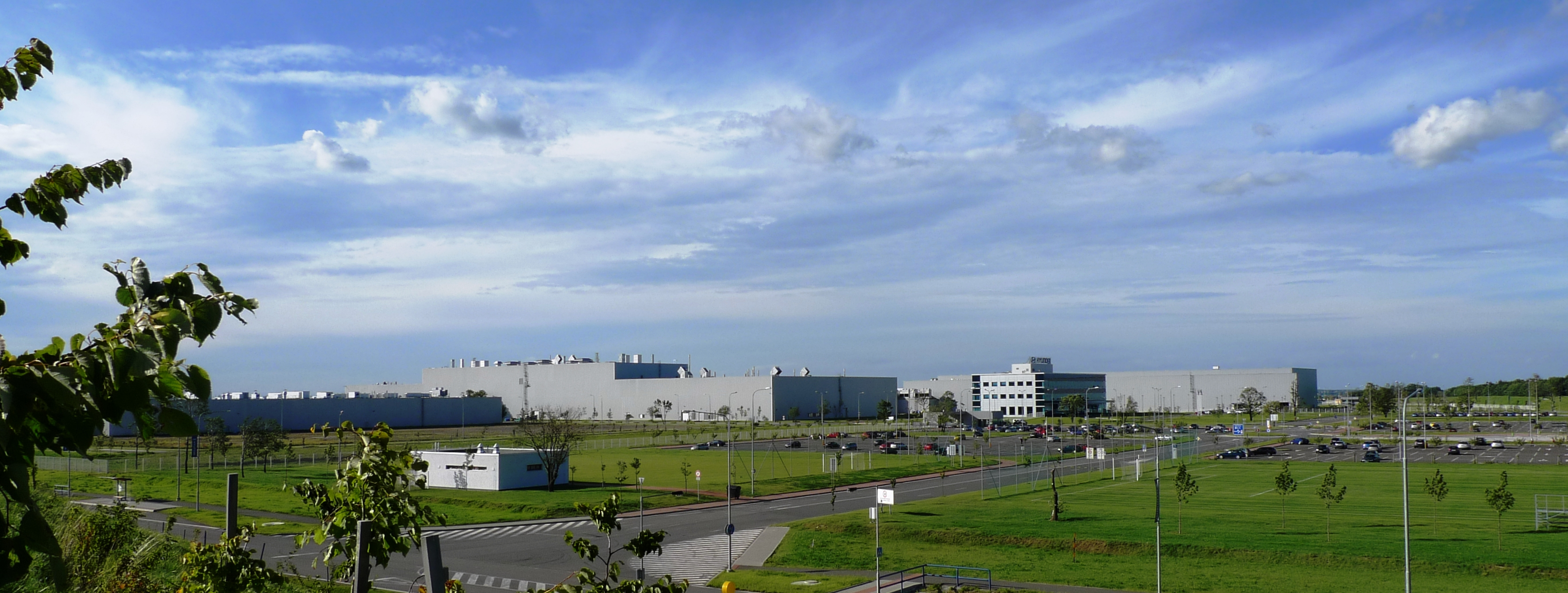 Factory Hyundai Motor Manufacturing Czech, Nošovice, Czech Republic